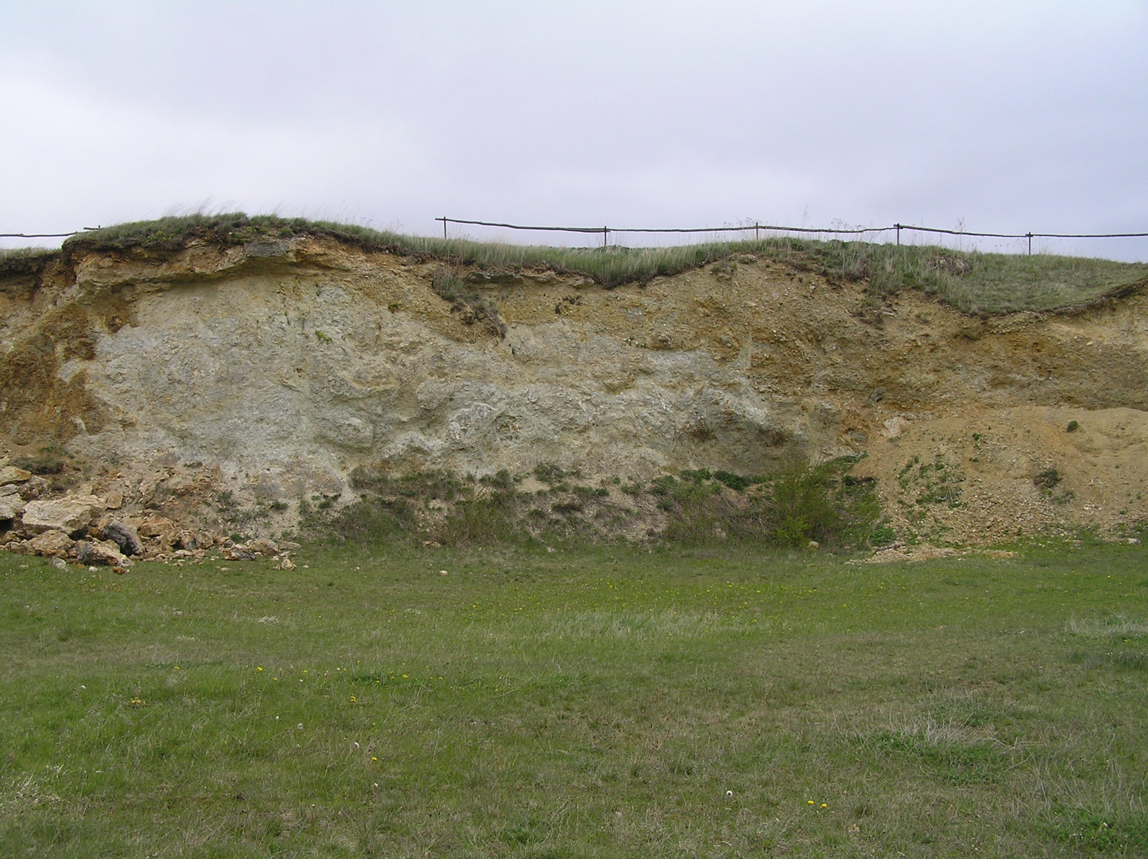 Aufschluss Wengenhausen